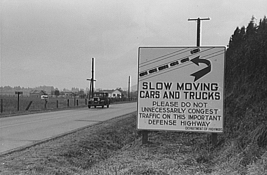 Sign on main highway between Portland, Oregon, and Seattle, Washington.